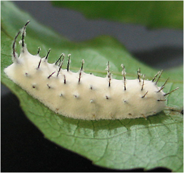 Beauveria bassiana on Ithominae larvae (Lepidoptera)